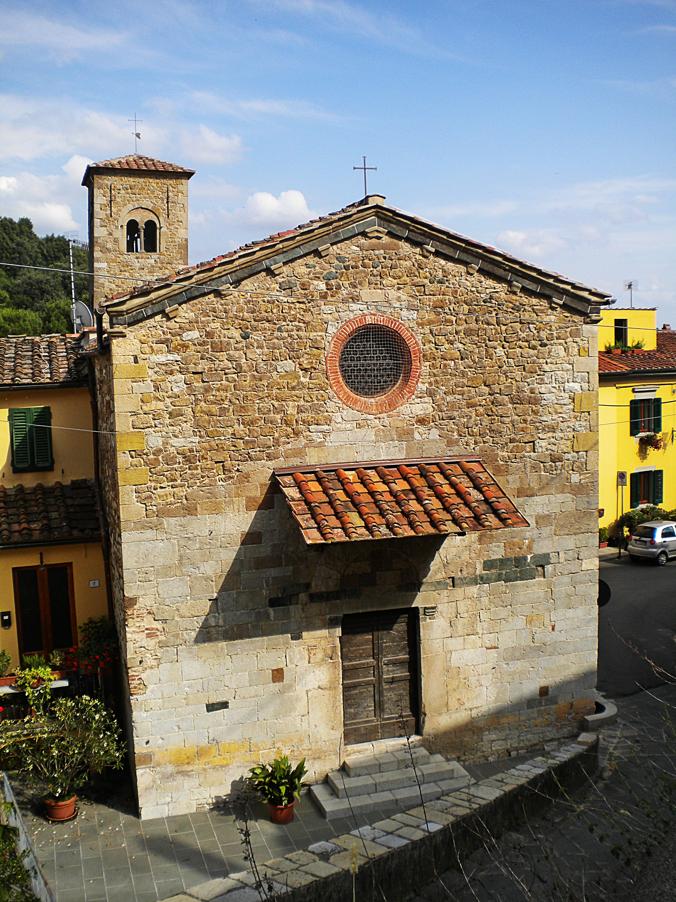 other view